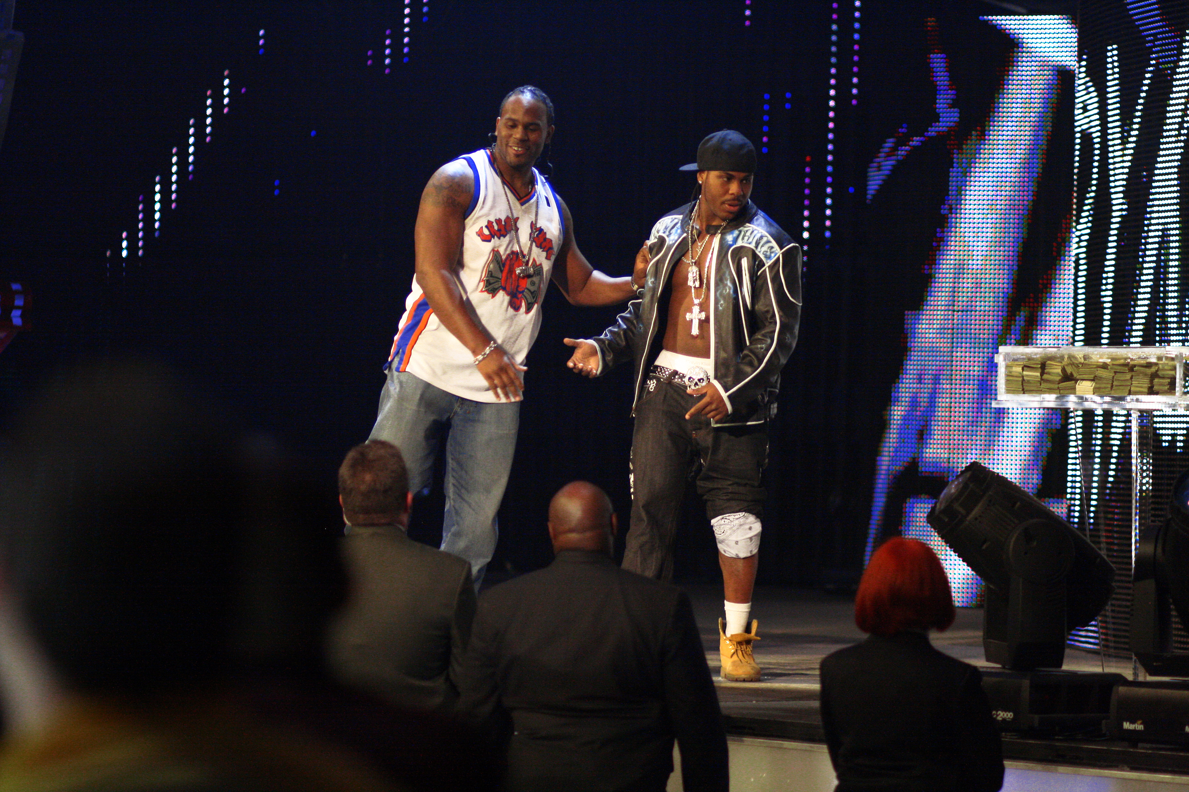 Cryme Tyme's JTG and Shad coming out for a short segment during Mr. McMahon's Million Dollar Giveaway.